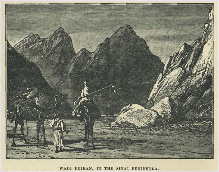 Colonel Wilson, ed.